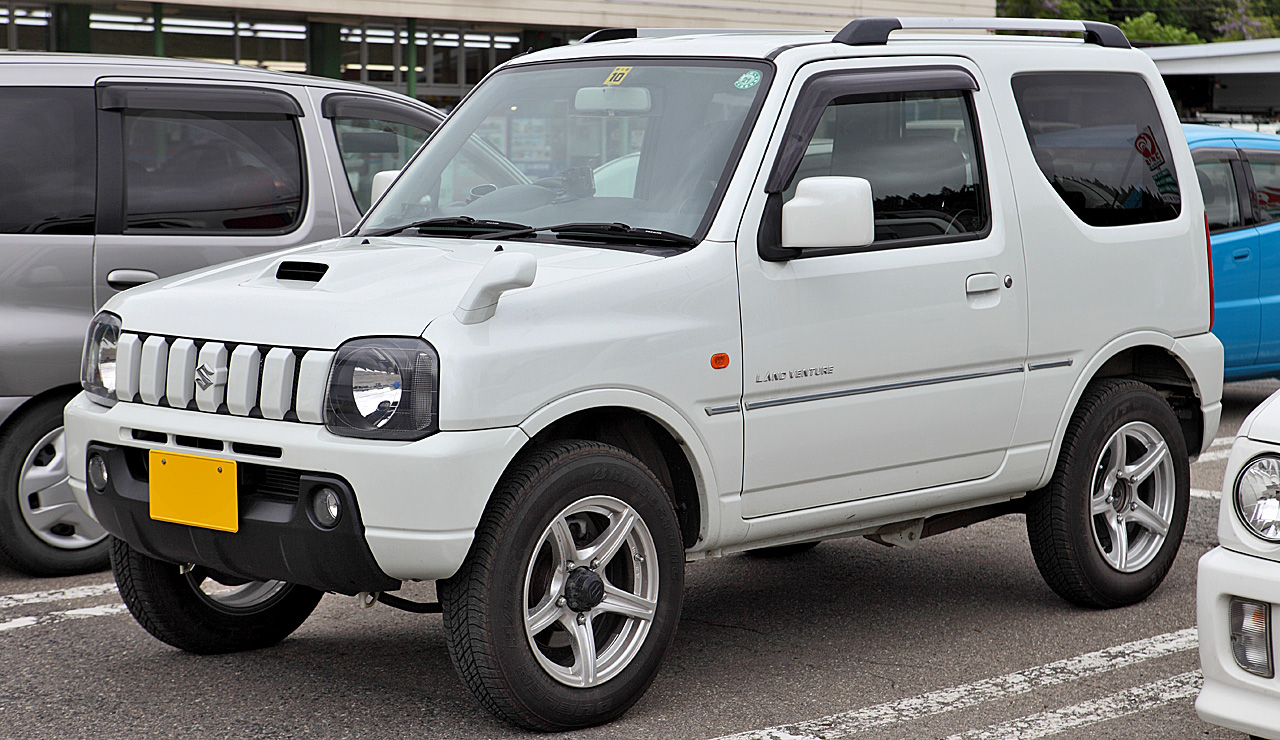 Suzuki Jimny 660 Land Venture ( JB23W )